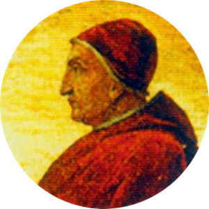 Portait of Pope Sixtus IV in the Basilica of Saint Paul Outside the Walls, Rome